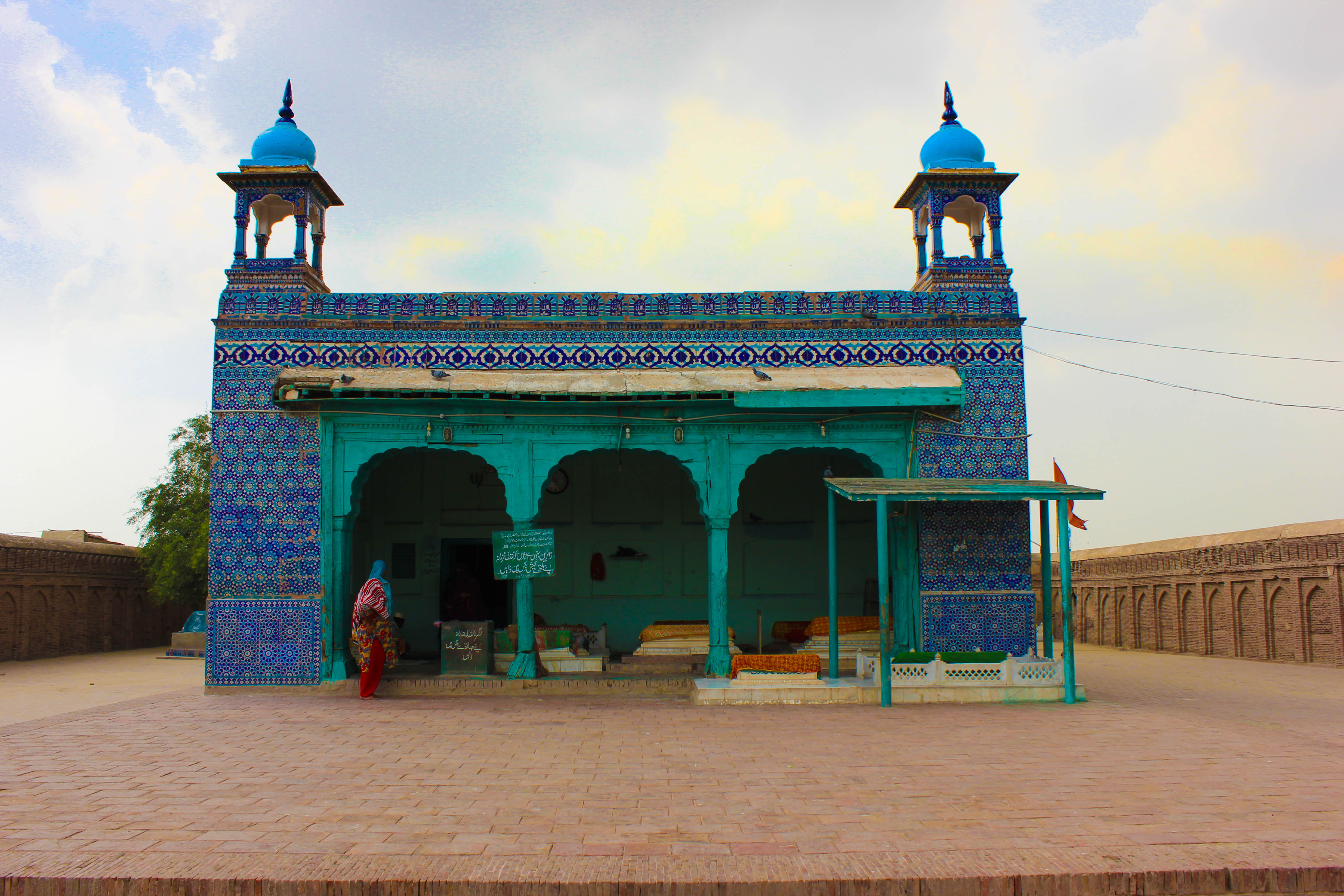 Shrine of Bibi Pak Daman Dera Basti, Front View. This is a photo of a monument in Pakistan identified as the PB-P-153